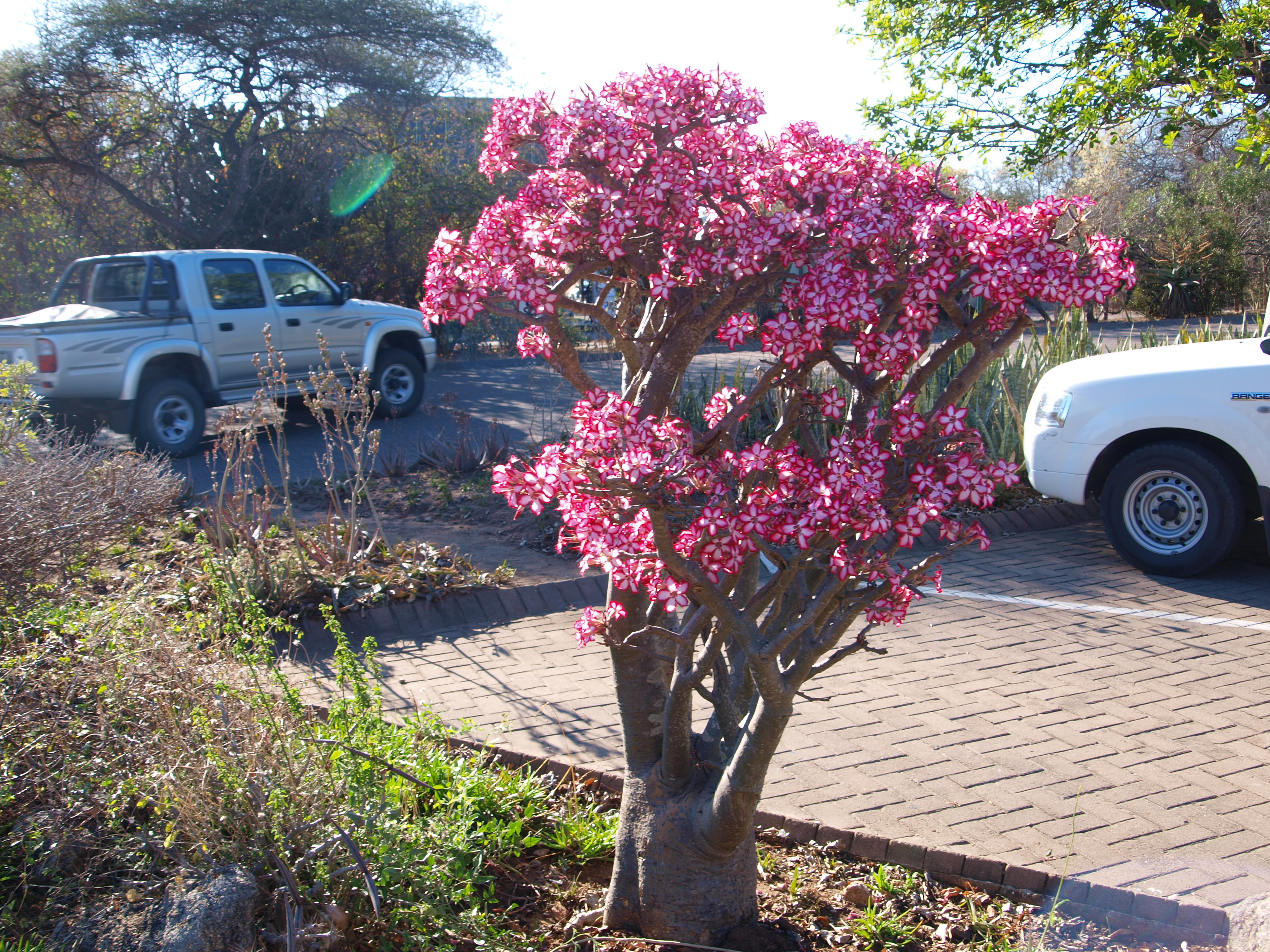 Impala lily